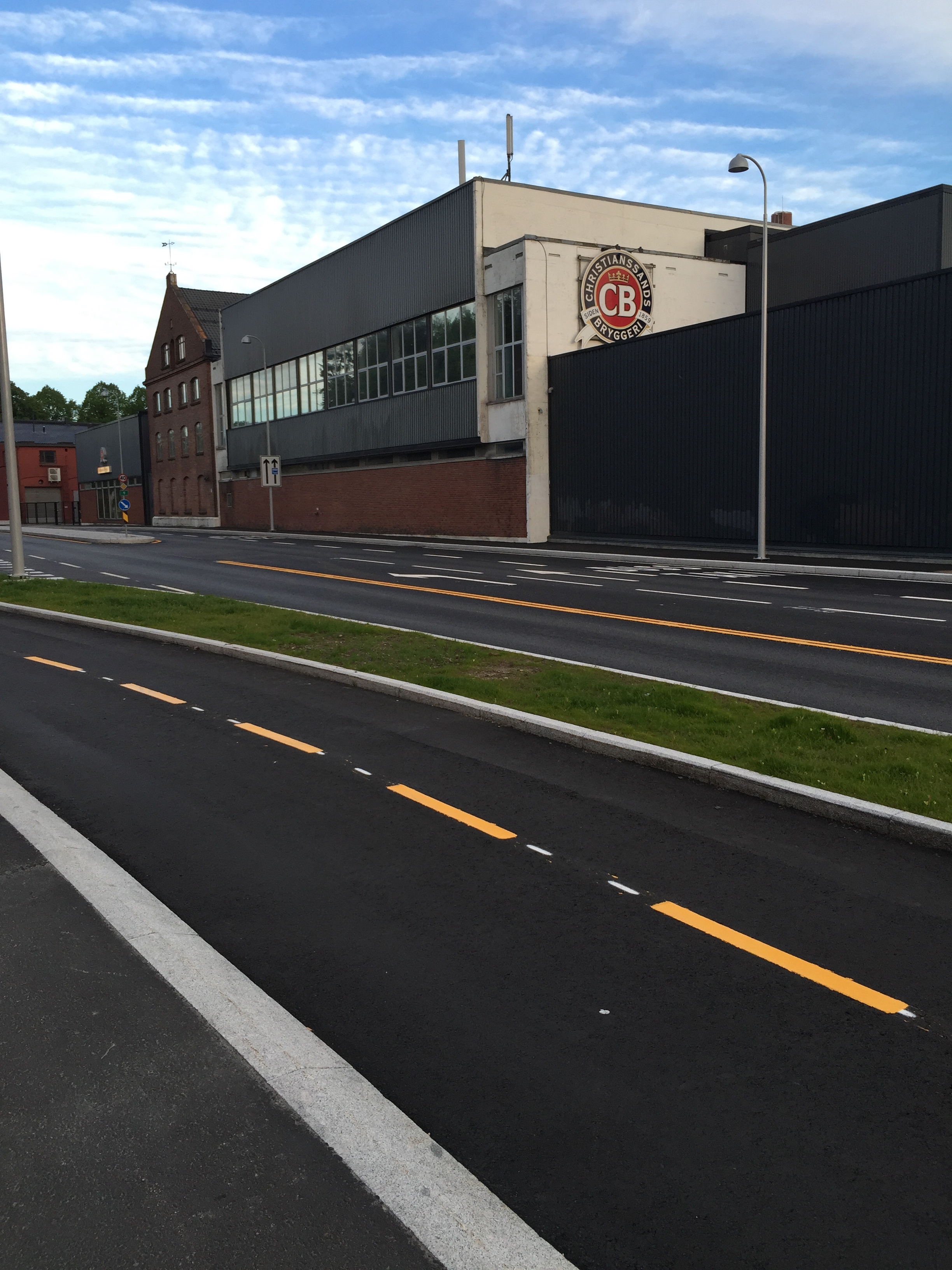 CB, Kristiansand